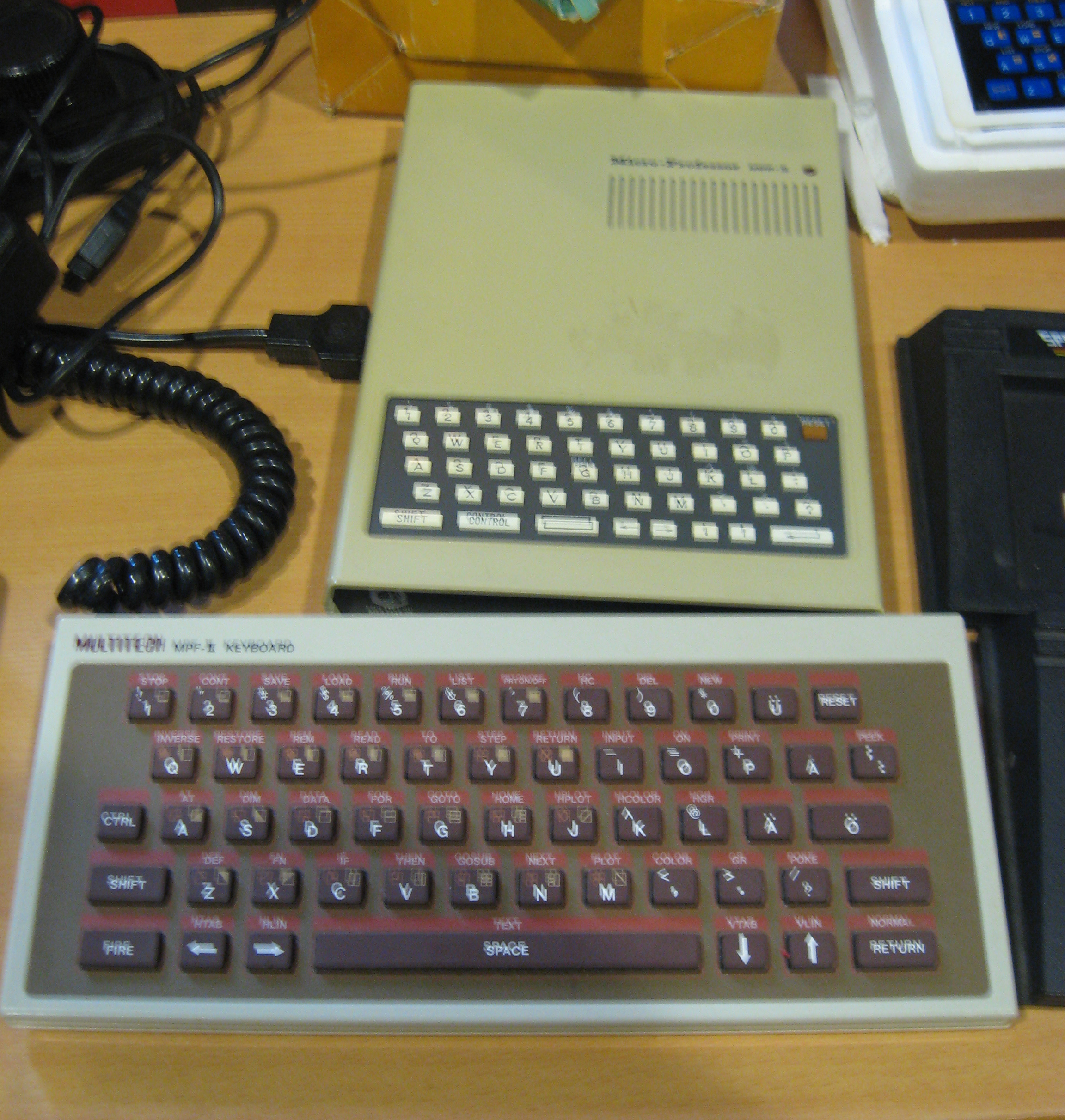 Multitech Micro-Professor MPF-II taken at Retro Gatering, Stockholm, 27 Sep 2008. Add-on keyboard in the front.